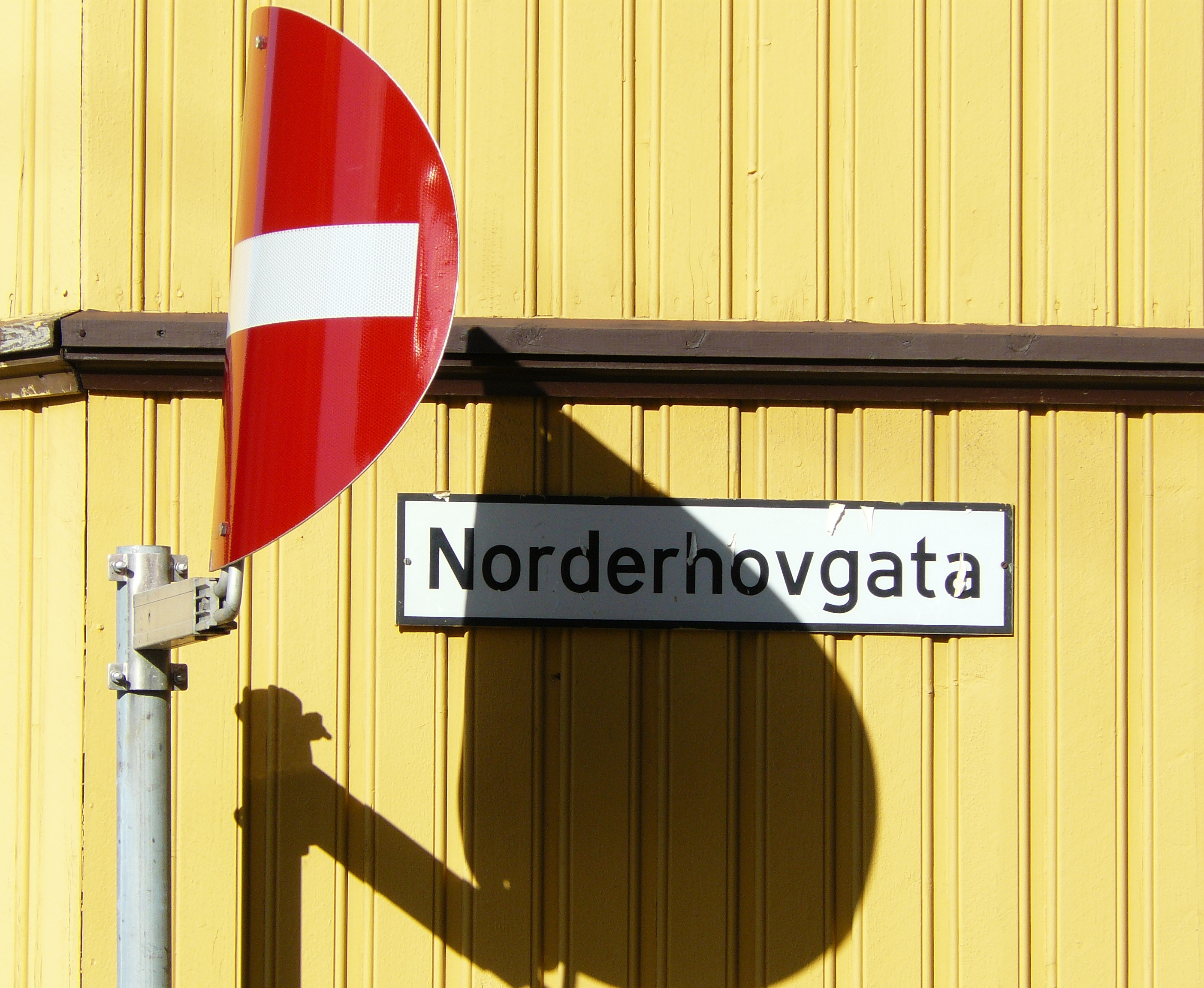 Norderhovgata (street), Kampen, Oslo, Norway